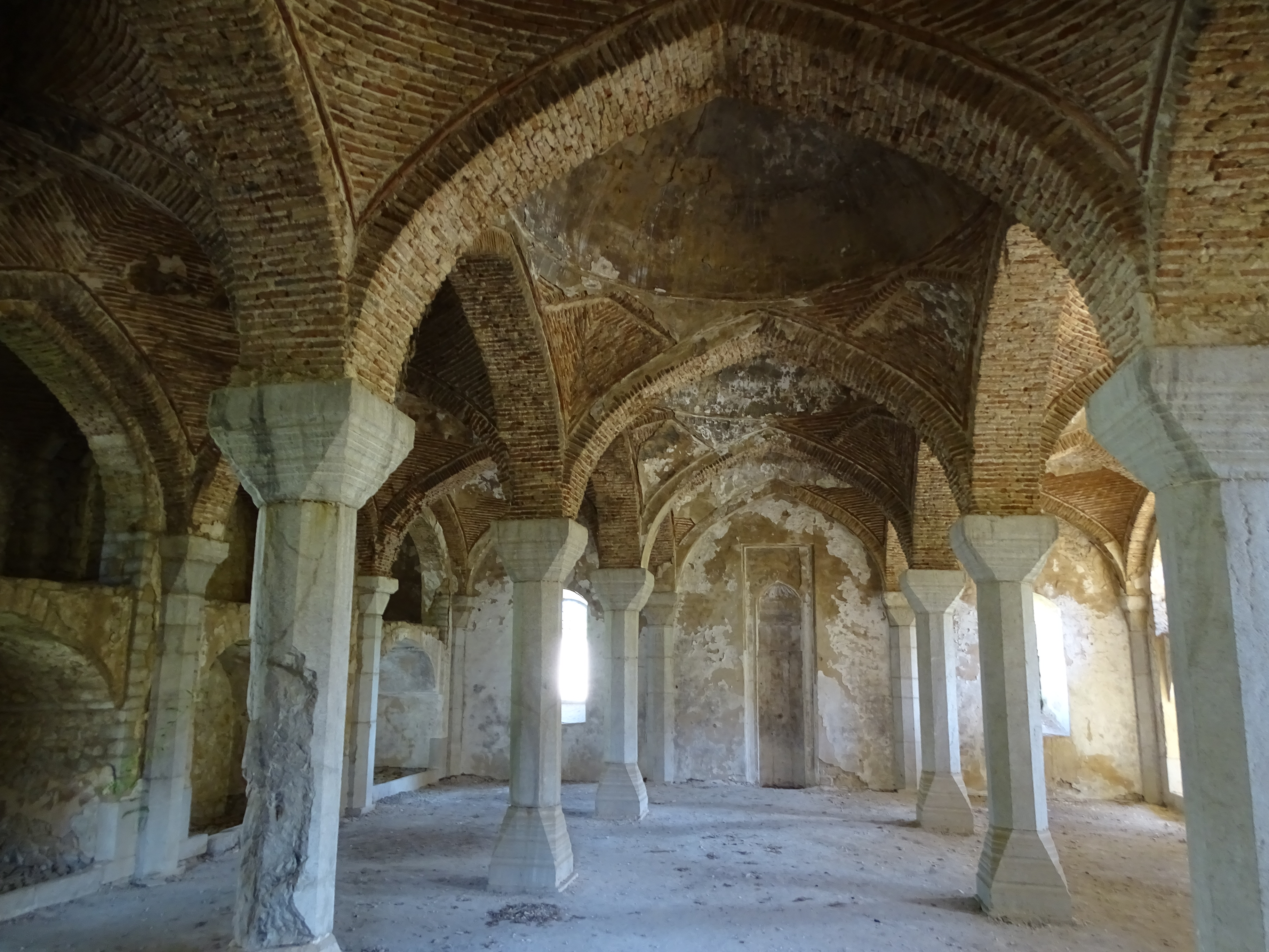 Interior of abandoned Upper Govhar Agha Mosque. Shushi, Nagorno-Karabakh.